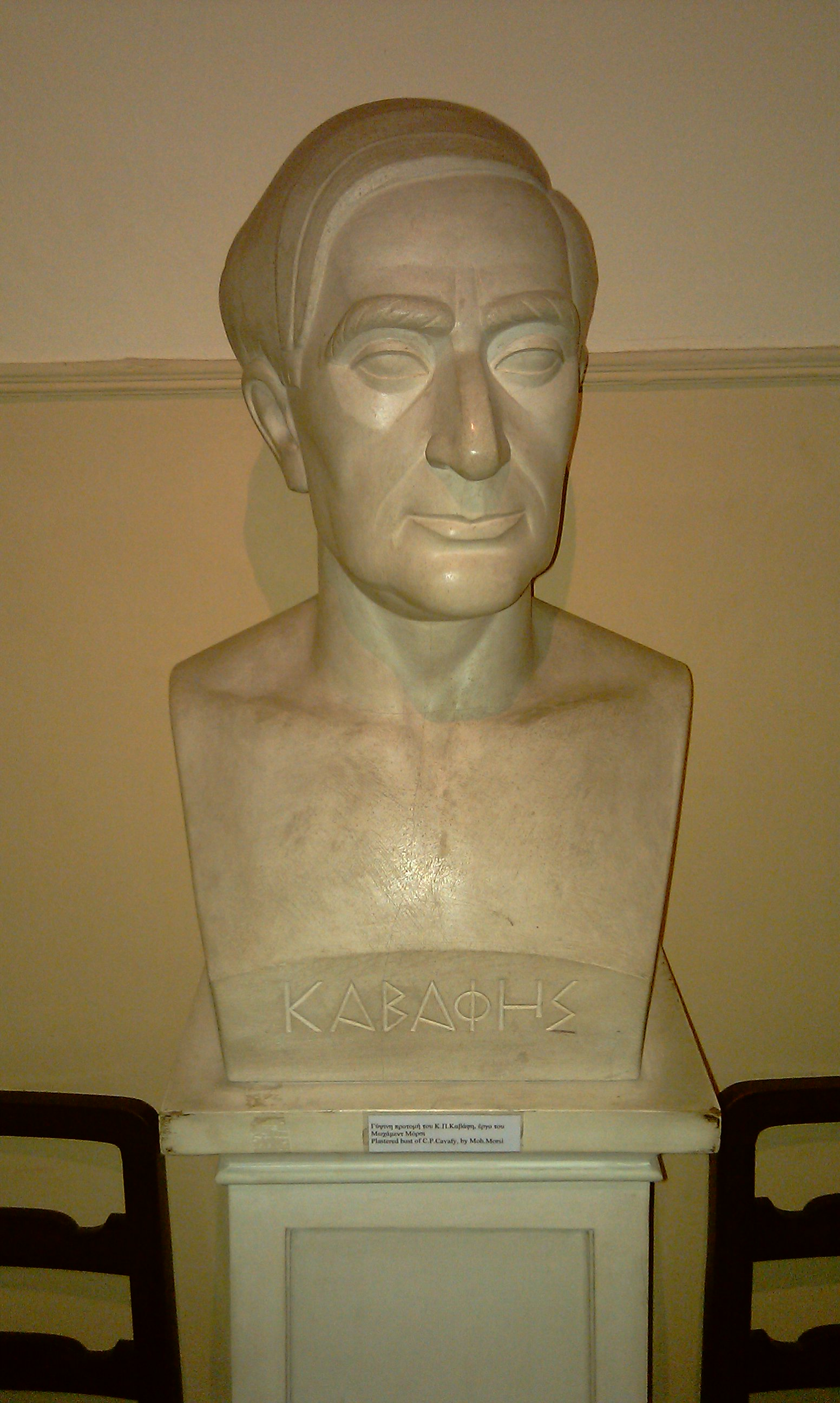 A bust of Constantine Cavafy located in his apartment (now a museum) in Alexandria, Egypt